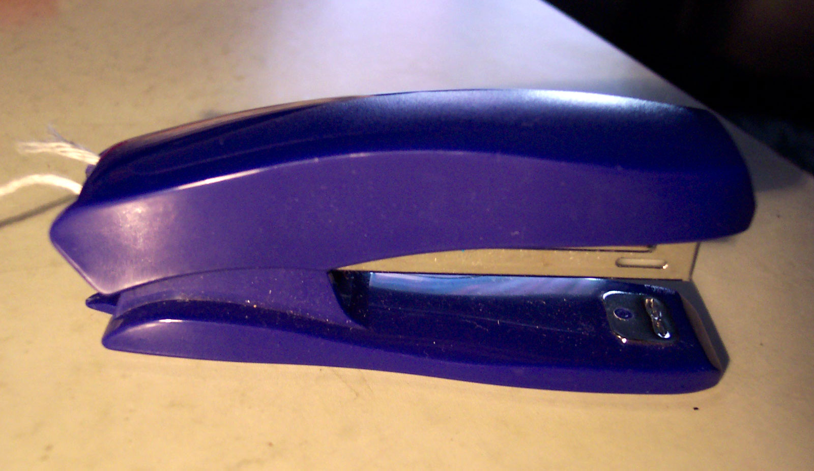 Stapler Taken by Enoch Lau on 22 June 2004. As a courtesy, please let me know if you alter this image or this image description page. Original filename was 100_2901.JPG.